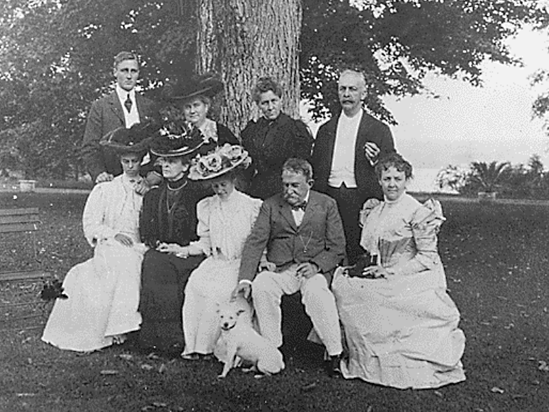 Franklin D. Roosevelt and Eleanor Roosevelt and Delano family members in Newburgh, New York. (1906)